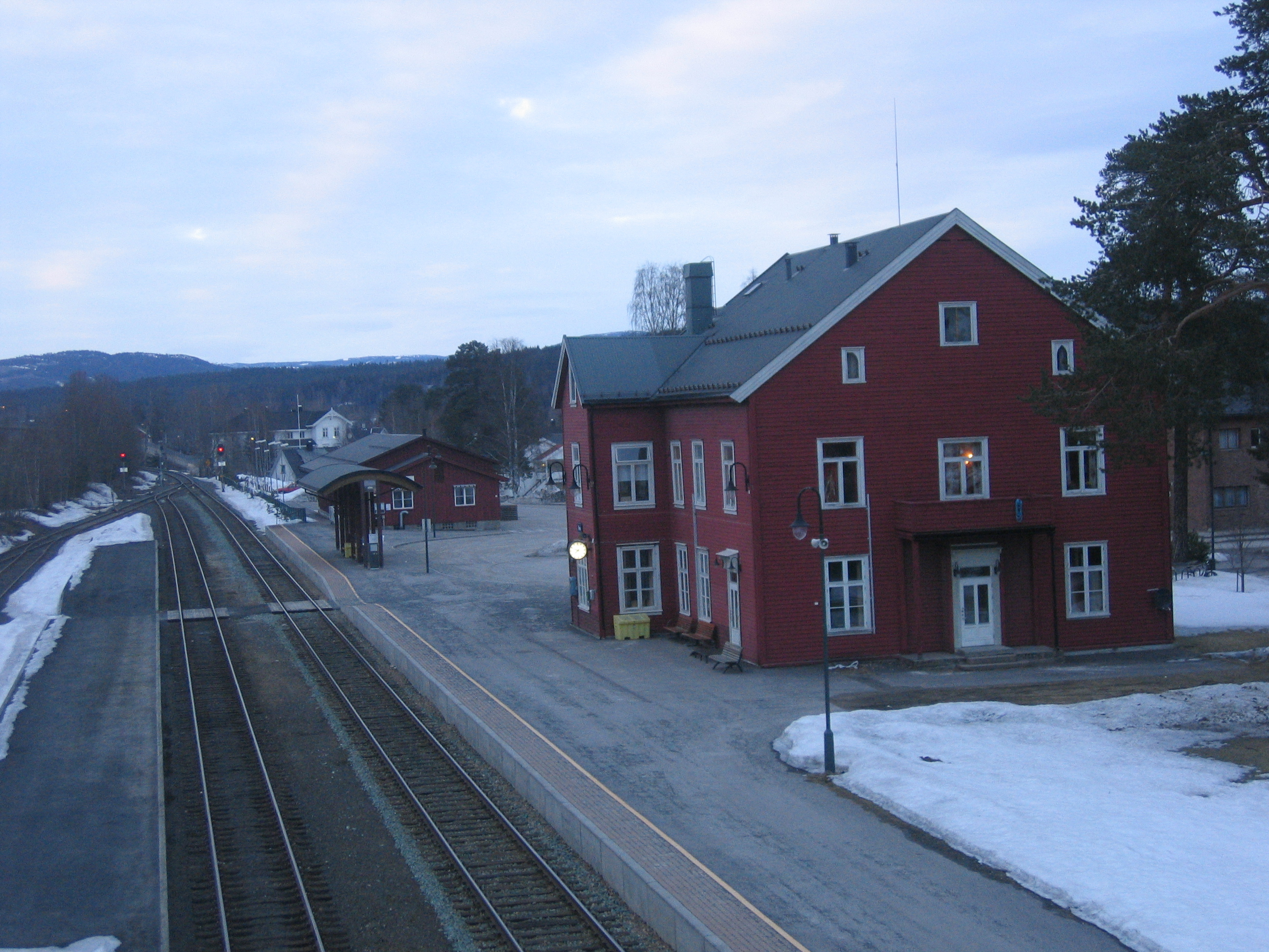 Rena railway station in Åmot, Hedmark, Norway.